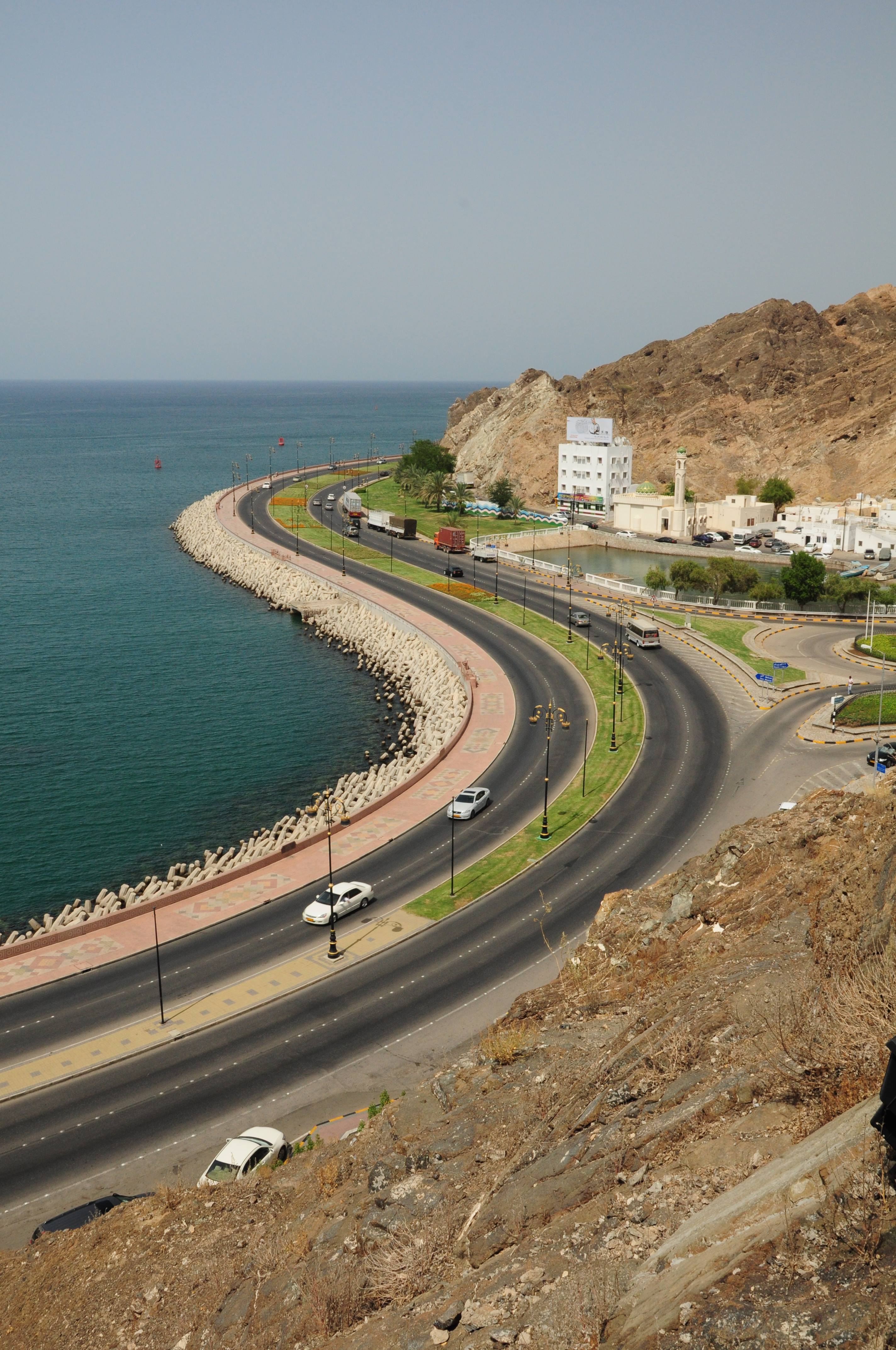 النقل في عمان4